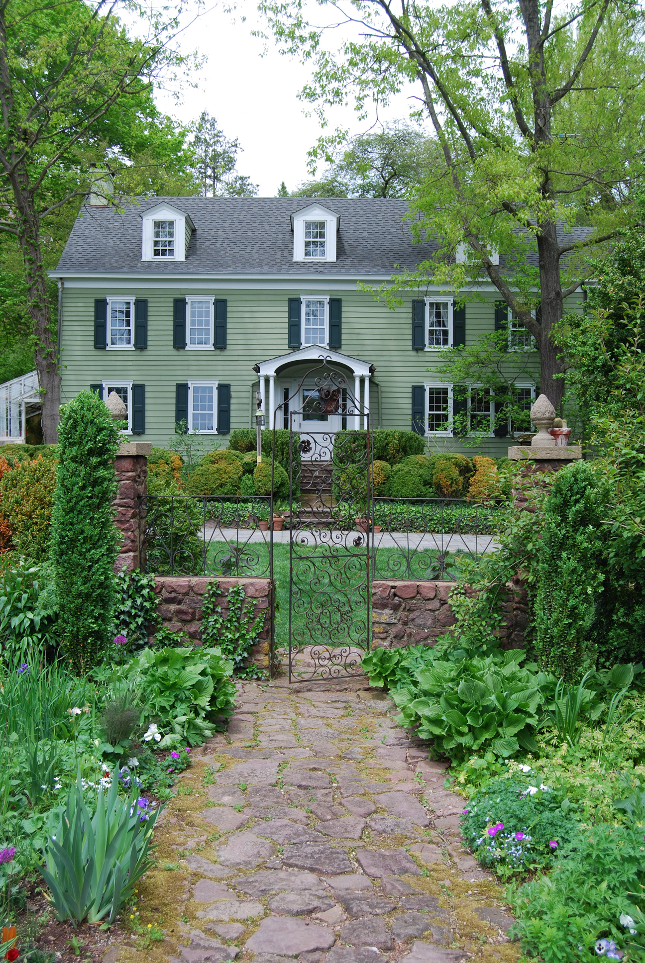 A view of the front of the main house at Willowwood Arboretum in Chester, New Jersey